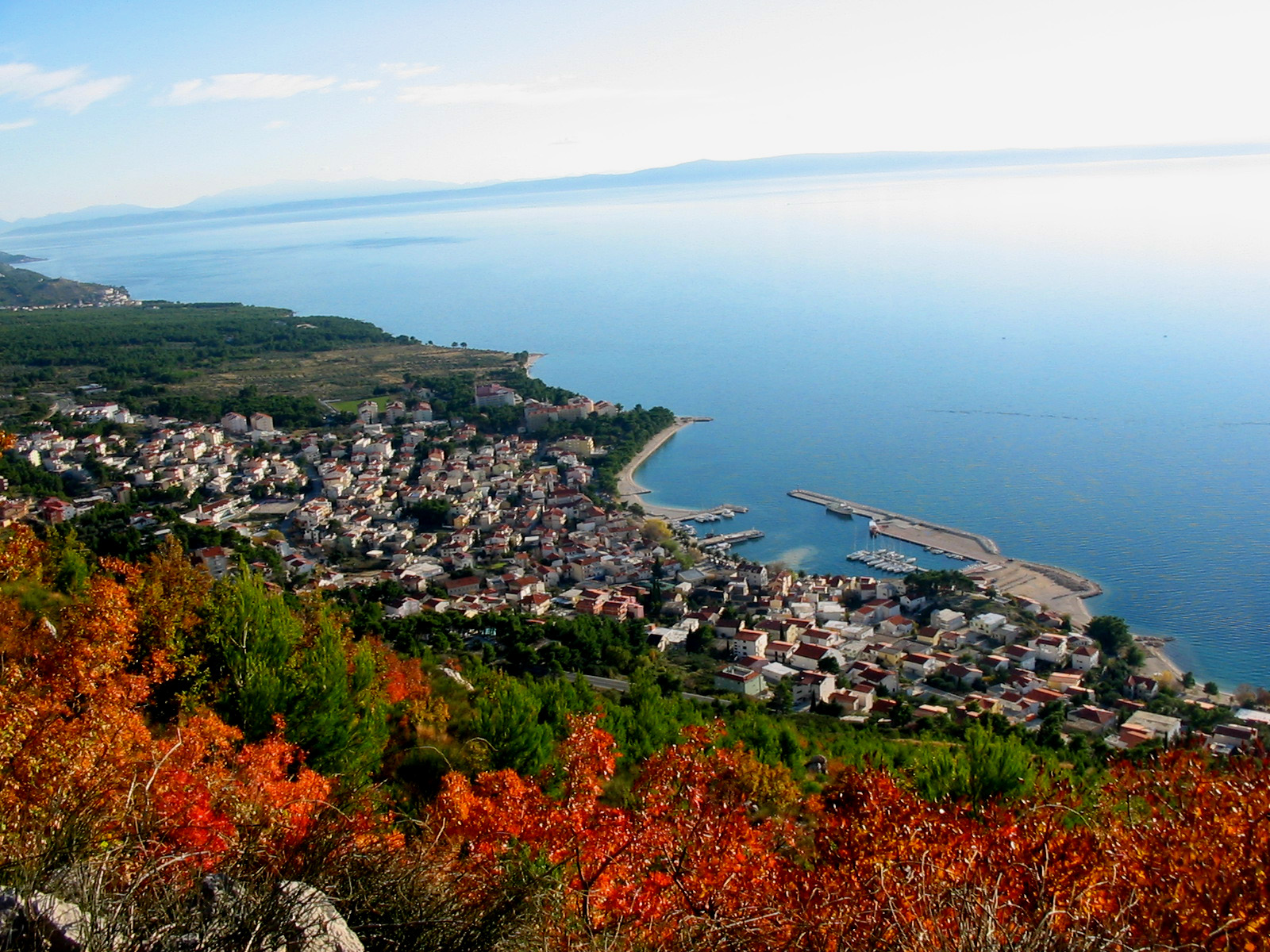 Panoramic view of Baška Voda.